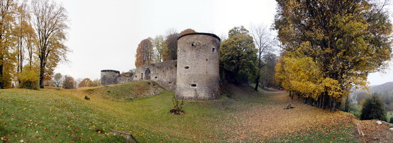 Castle Lafauche